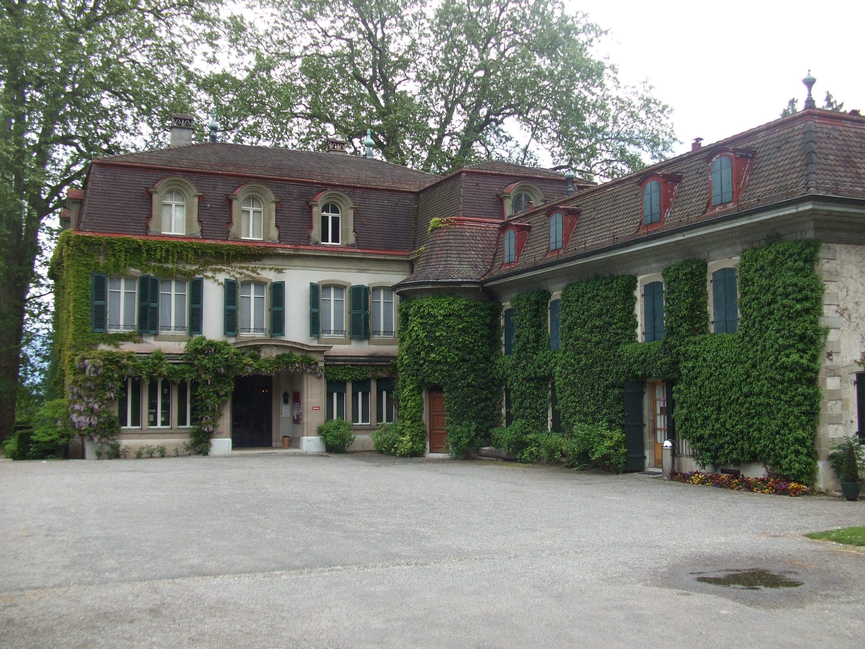 Le Musée des Suisses dans le Monde (Museum of Swiss Abroad) near Geneva, Switzerland. See